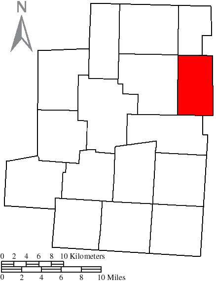 Originally created by the US Census. Modified by myself to highlight the township.